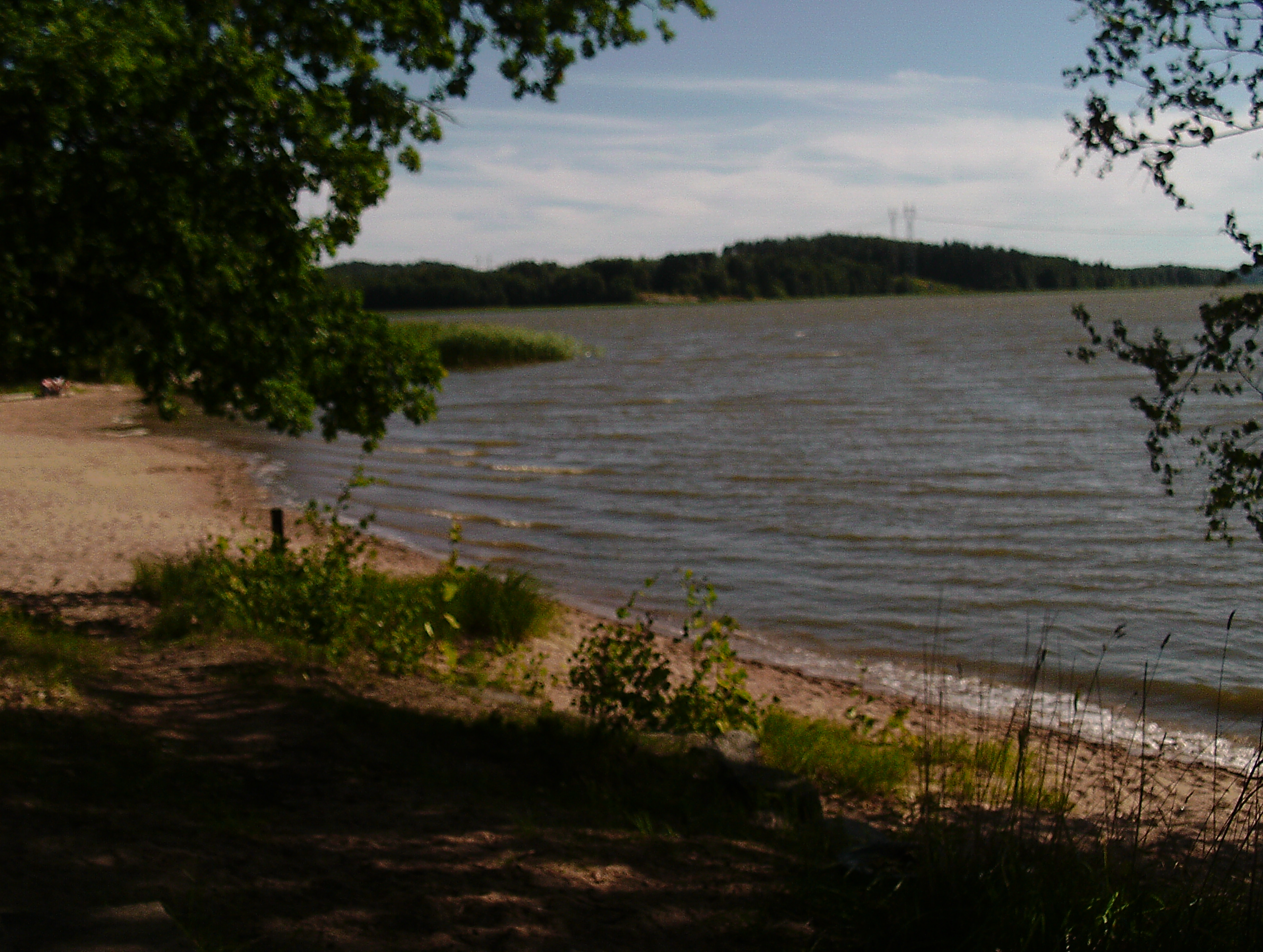 The beach on the isle of Vuohensaari, Salo, Finland